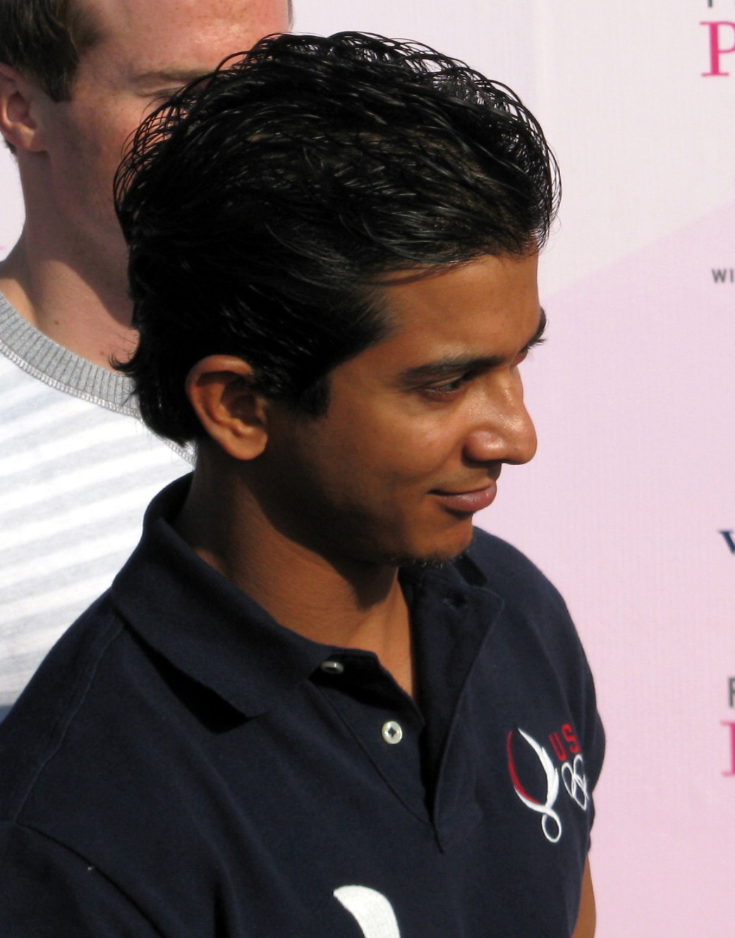 Raj Bhavsar, Frosted Pink With a Twist 2008 Pink Carpet. (original text)